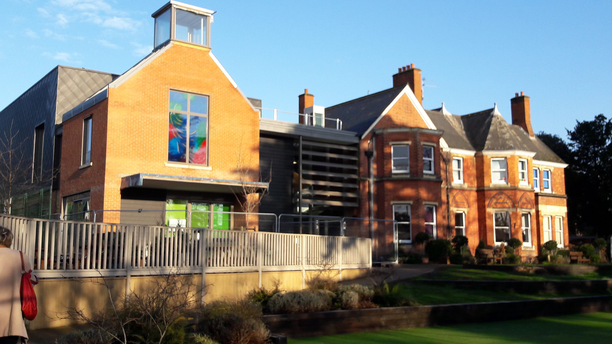 Donhead Preparatory School